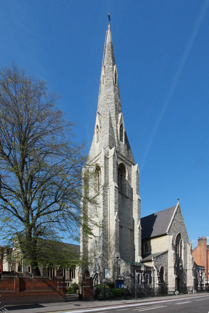 St Mary, Clapham Park Road, London SW4